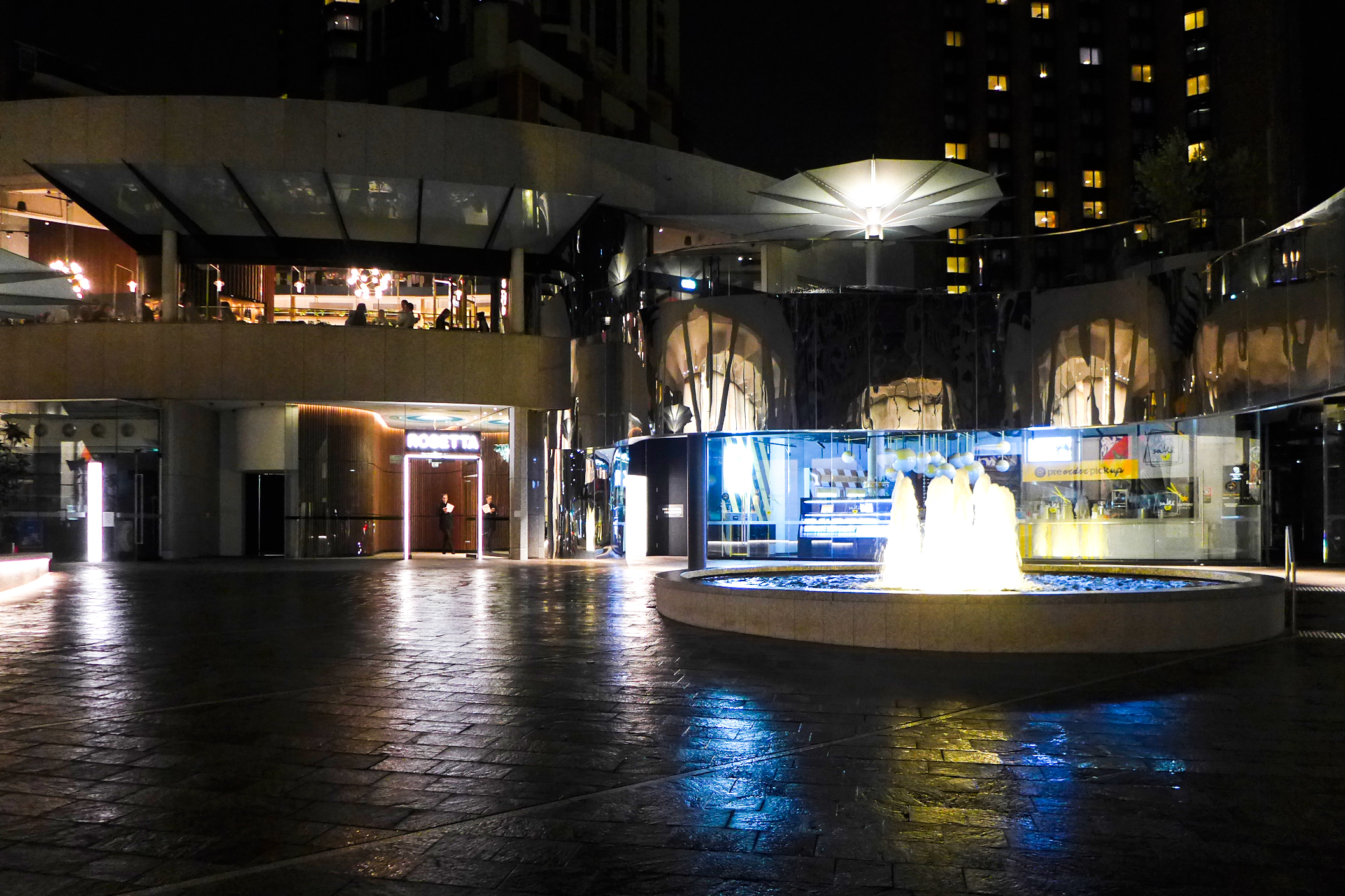 Grosvenor Place (skyscraper) Outdoor plaza fountain